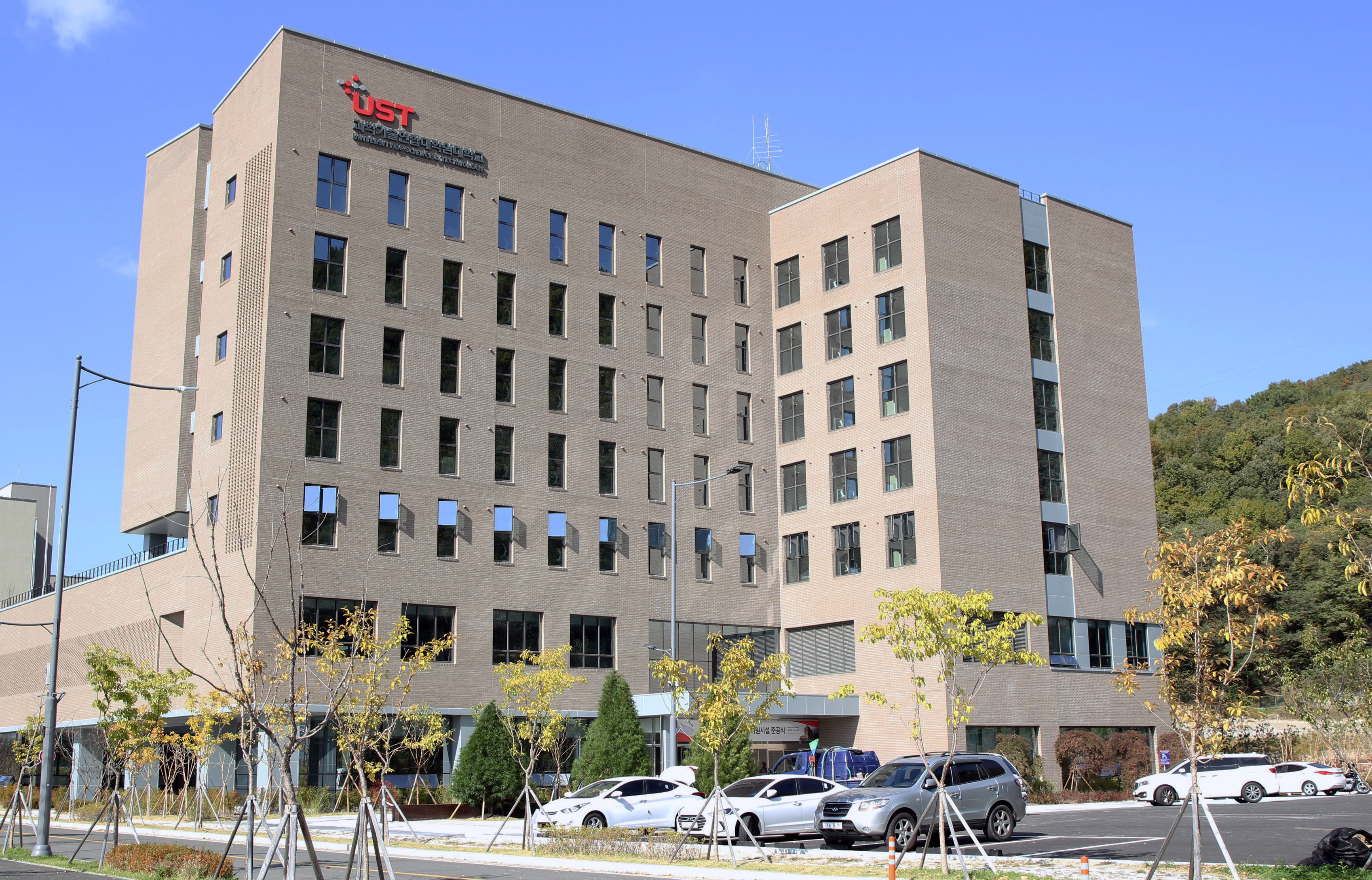 UST dormitory on the headquarters of the Institute for Basic Science in Daejeon, South Korea.